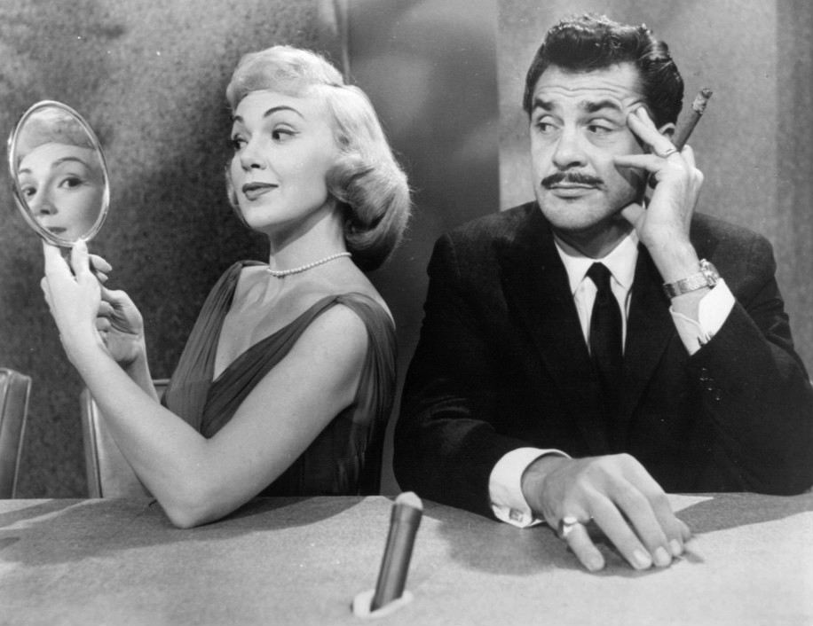 Promotional photo of Ernie Kovacs and Edie Adams from his television show, Take a Good Look. This photo was produced prior to 1978 and has no copyright markings. It can be dated by the ABC information on the back of the photo which is shown in the original upload and the photo link above.